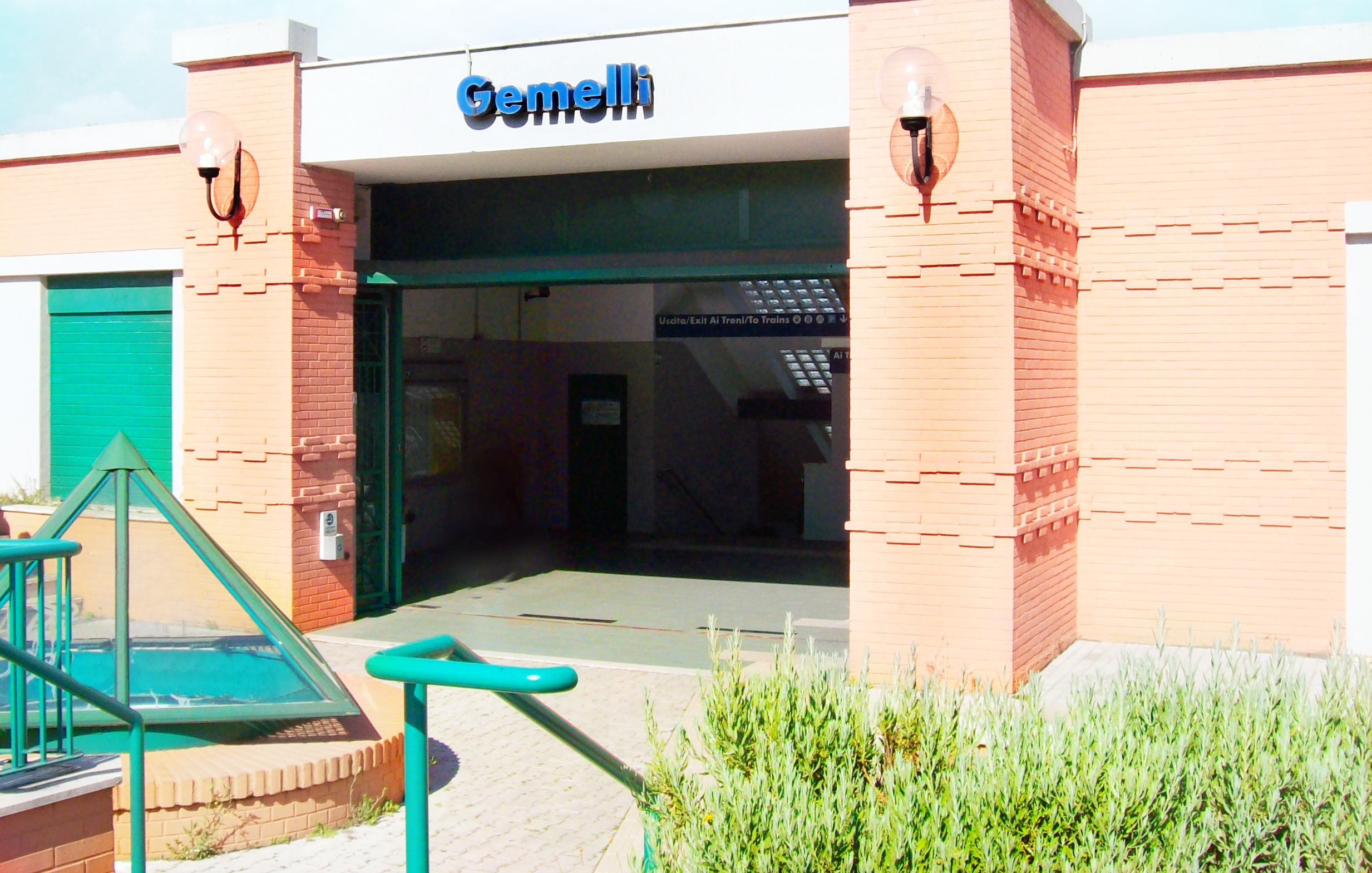 The main entrance of the railway station Gemelli in Rome, Italy